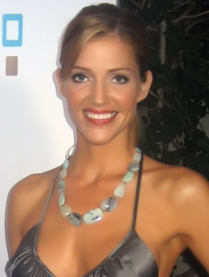 L.A. Confidential/Belvedere/Water Club/Sapporo Emmy Party